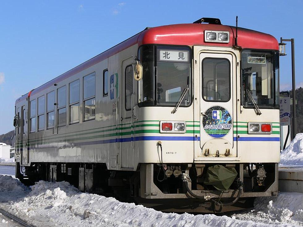 Hokkaido Chihokukogen Railway CR70-7 Diesel railcar.